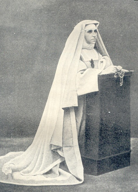 Photograph of Émilie d'Oultremont (1818-1878), founder of the religious society of Mary-Reparatrix.